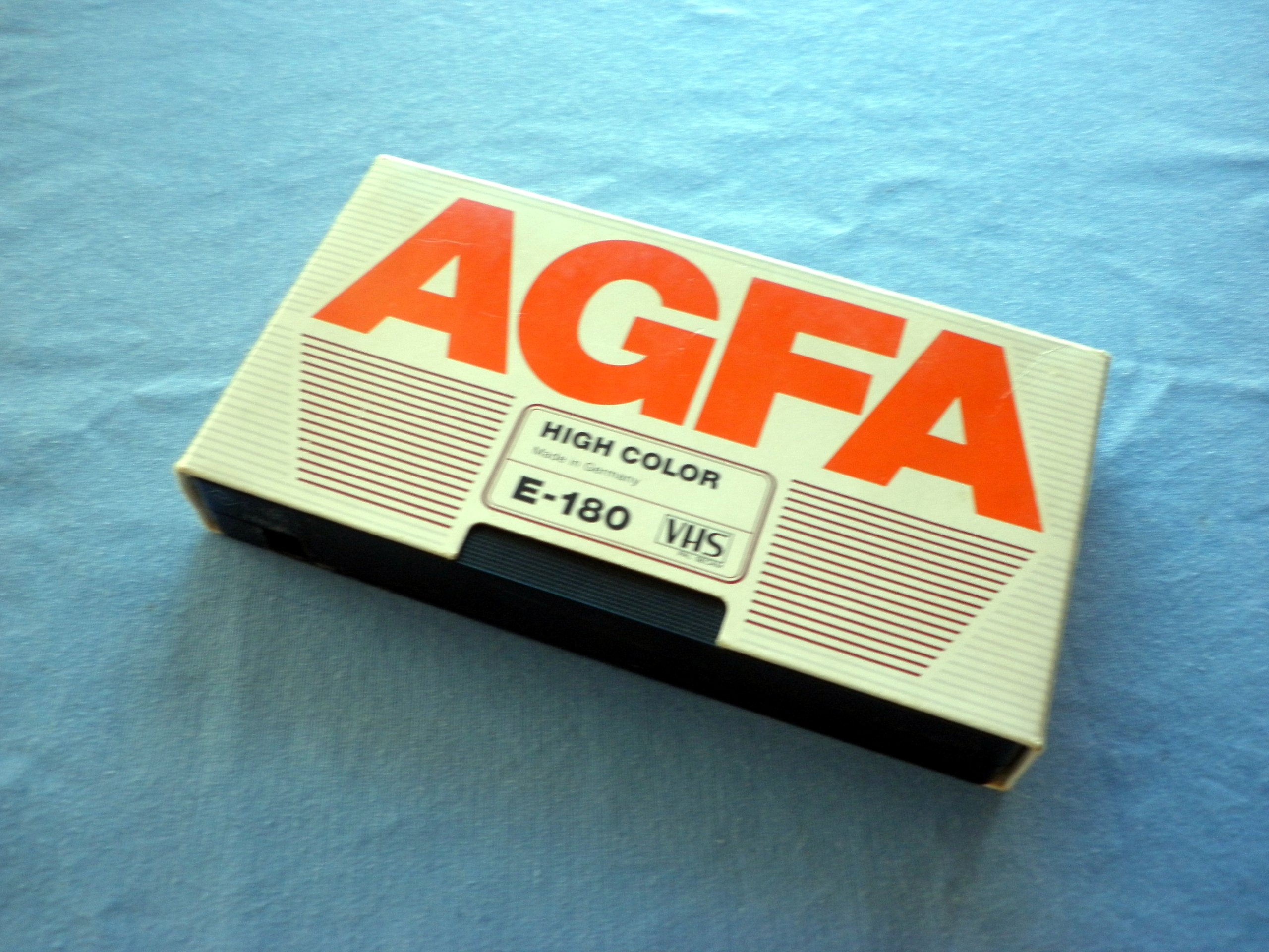 AGFA VHS.